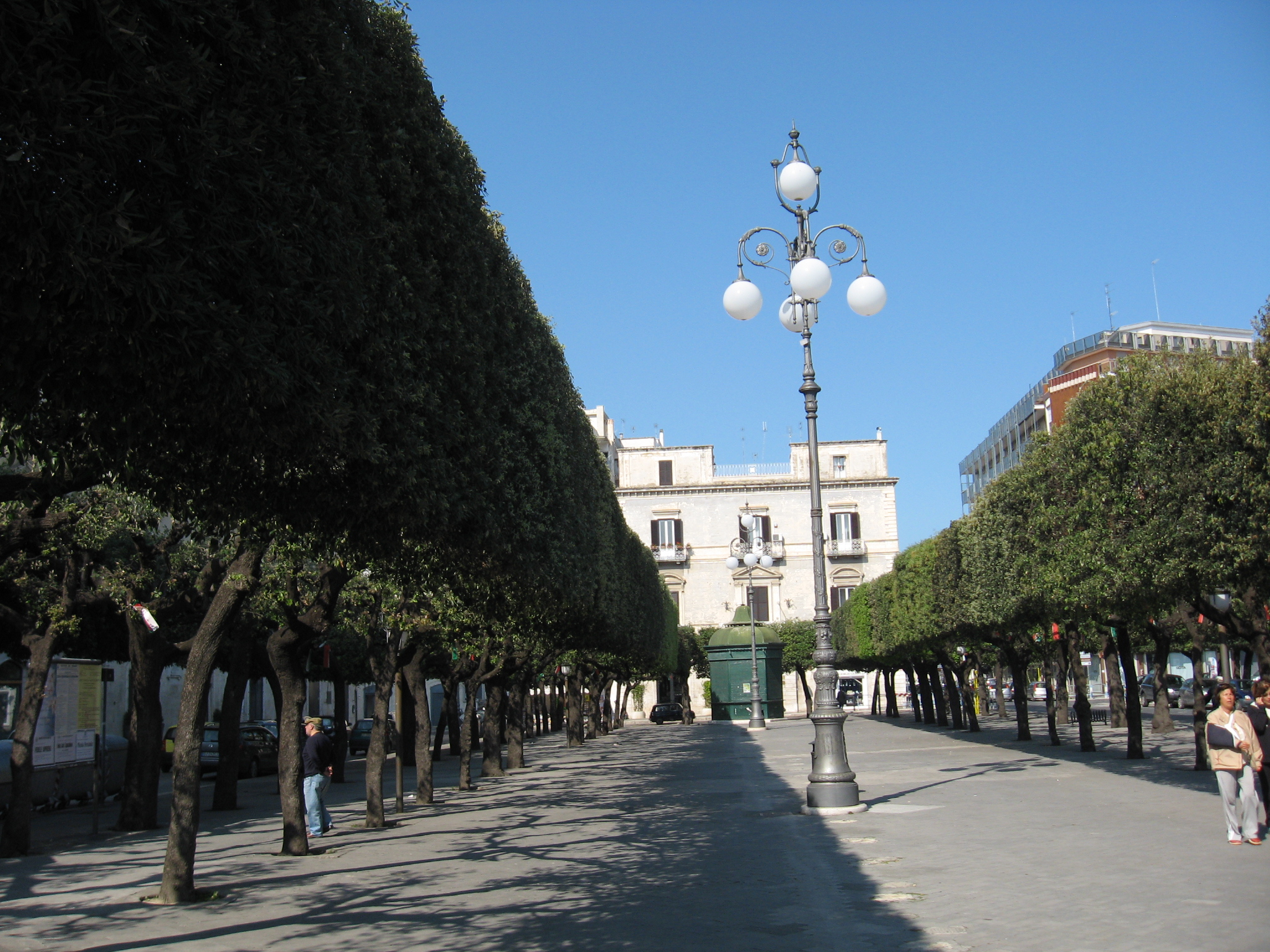 Trani: Piazza Republica